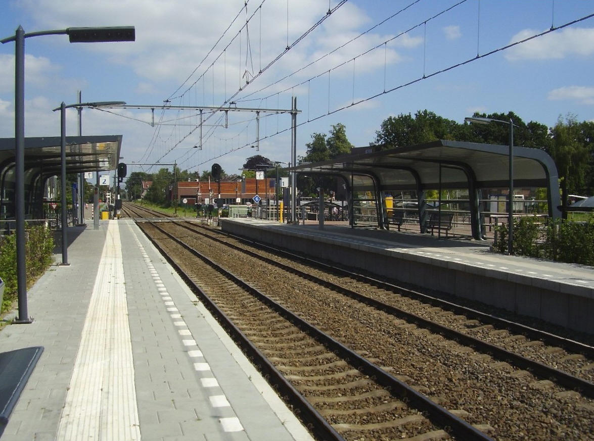 Station Twello, the Netherlands